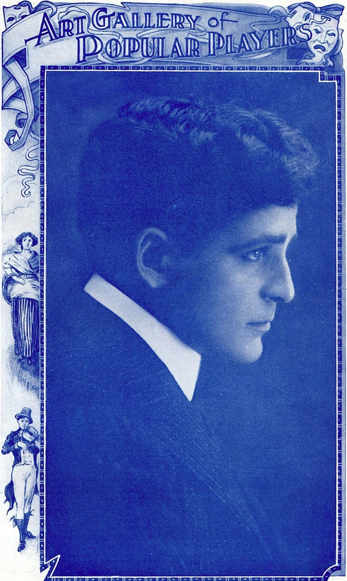 Portrait of Crane Wilbur